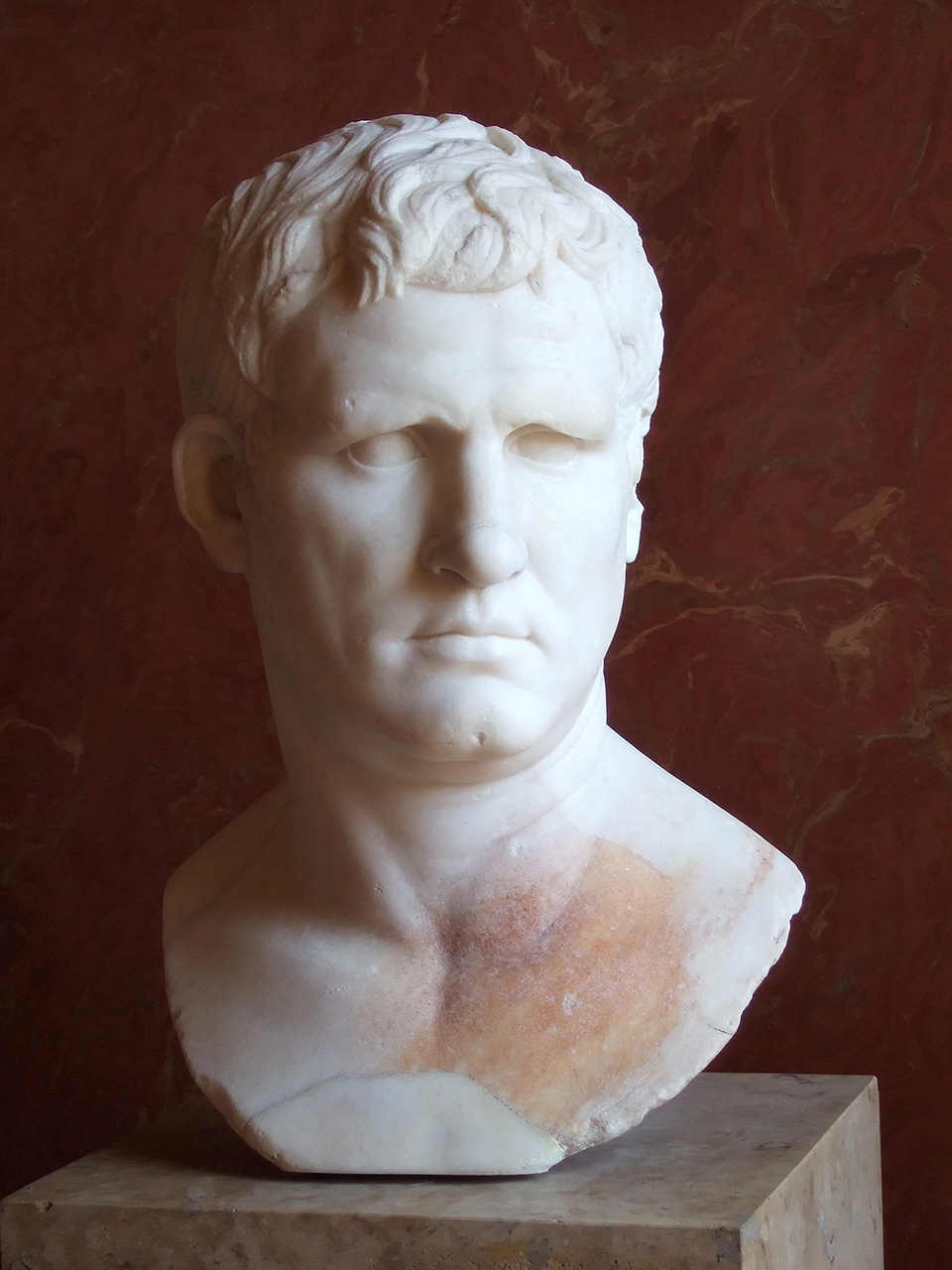 Portrait of Marcus Agrippa. Marble, ca. 25-24 BC. From Gabii.